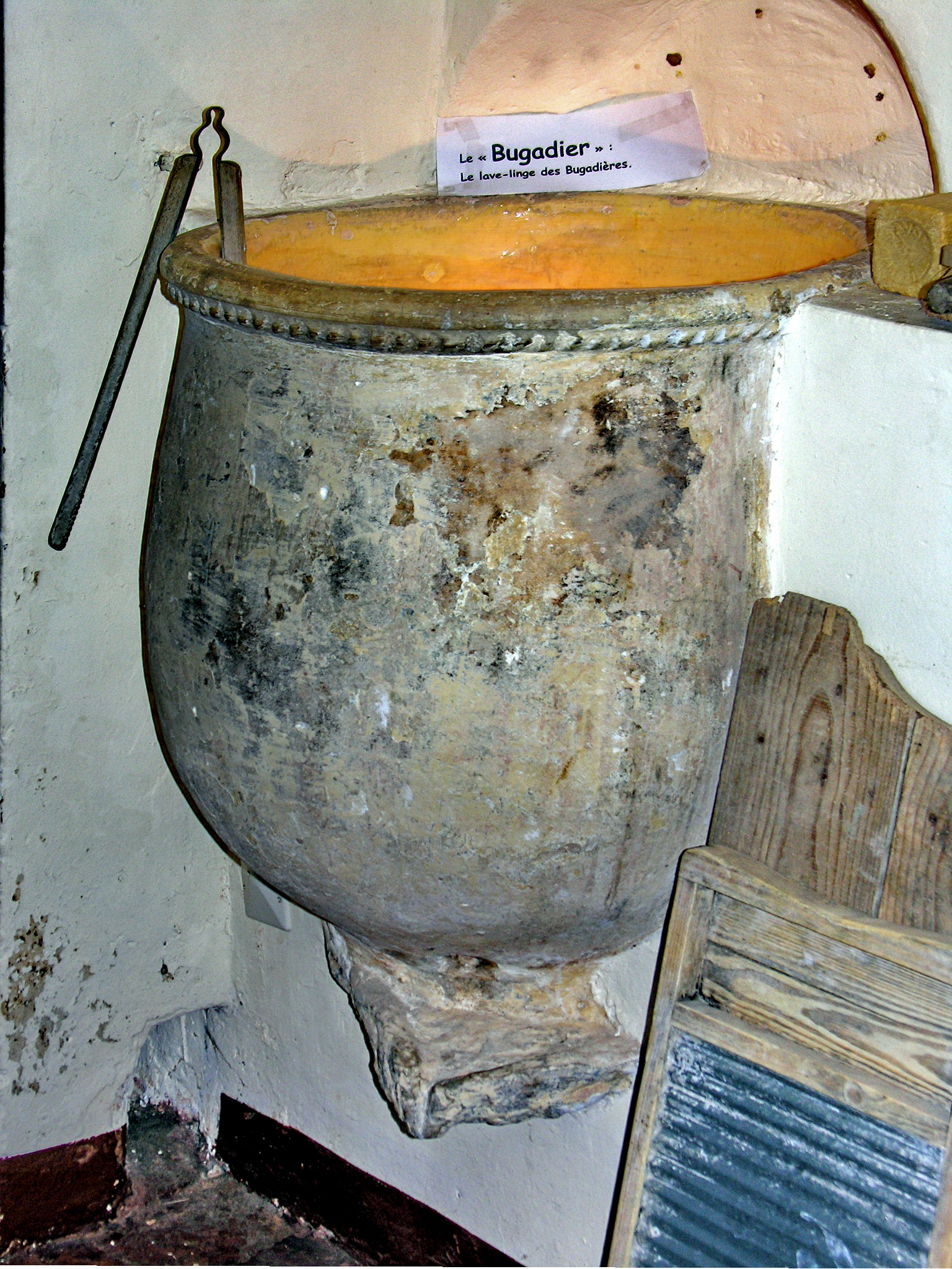 Mons(Var) : clothes washing earsthenware jug